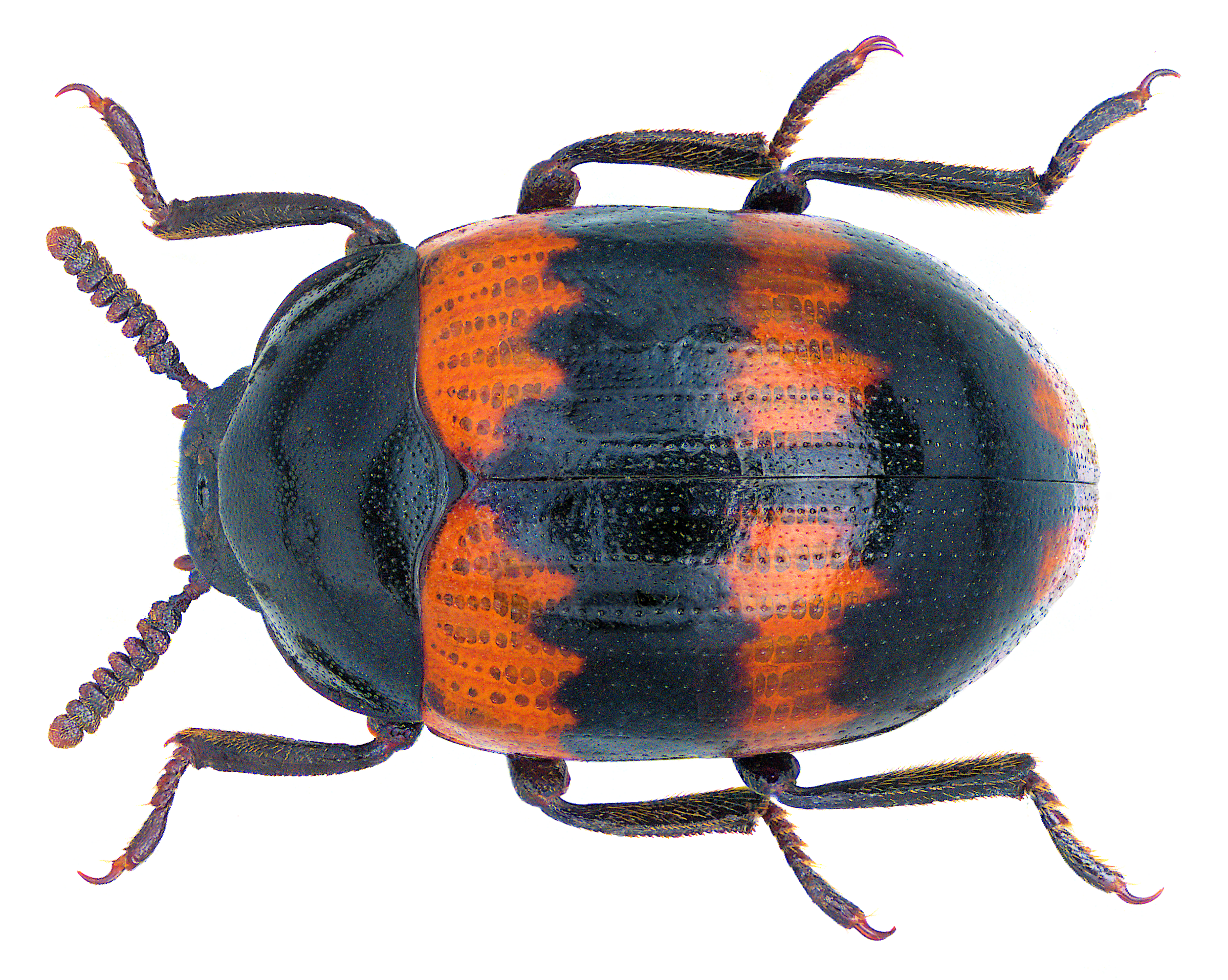 Family: Tenebrionidae Size: 7.8 mm (6.0 to 8.0 mm) Origin: Europe Ecology: lives on tree sponges Location: France, Corsica, Ghisonaccia, Tour de Vignale leg.det. U.Schmidt, 22.V.1973 Photo: U.Schmidt, 2013